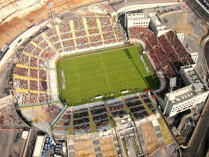 Details curve South San Filippo stadium Messina (Messina-Turin).